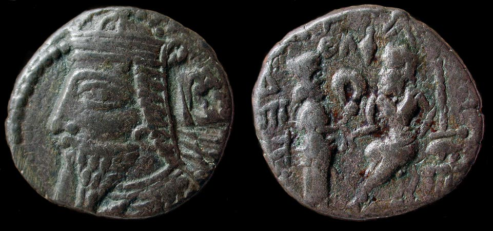 Coin of Vologases VI of Parthia. The reverse shows the throned king receiving a diadem from Tyche. The date ΘΛΦ is the year 539 of the Seleucid era, corresponding to 227–228. From [1]